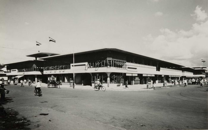 The Pasar Johar